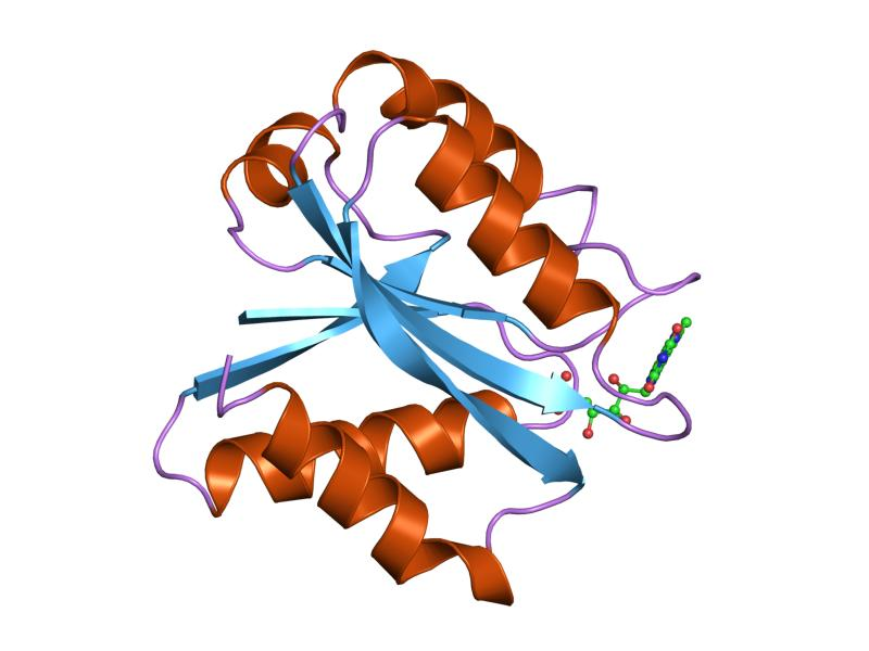 Cartoon representation of the molecular structure of protein registered with 3nll code.